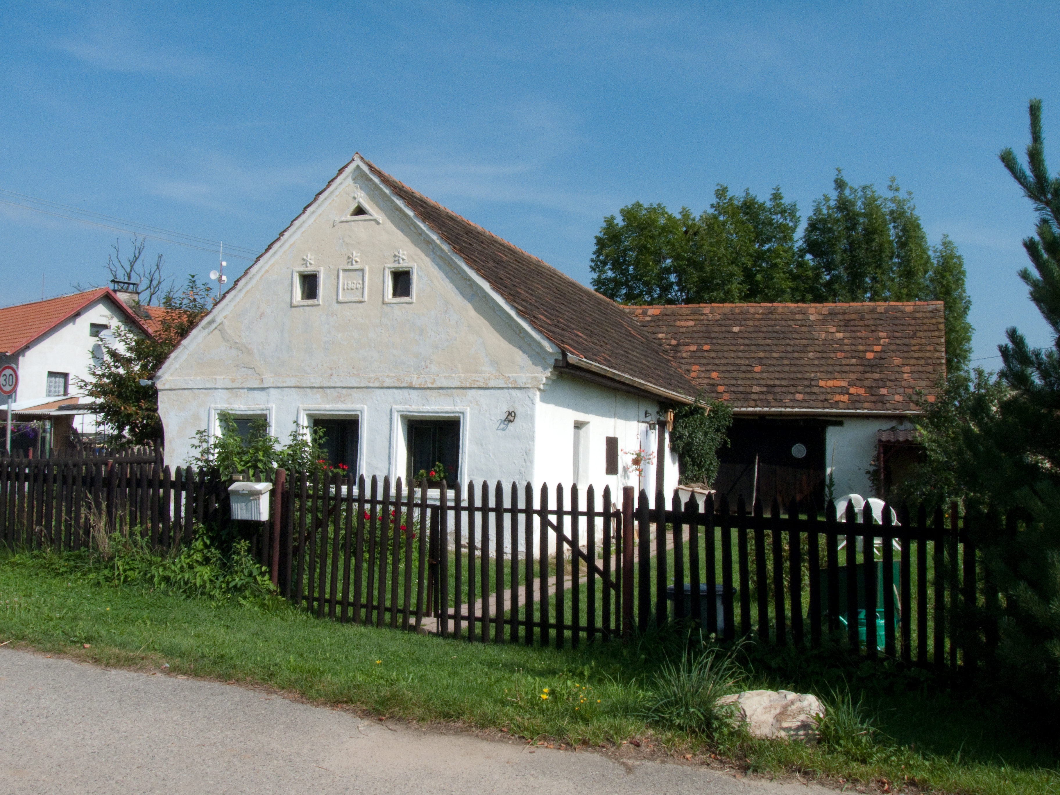 Cottage No 29 in Jaronice, České Budějovice district, Czech Republic